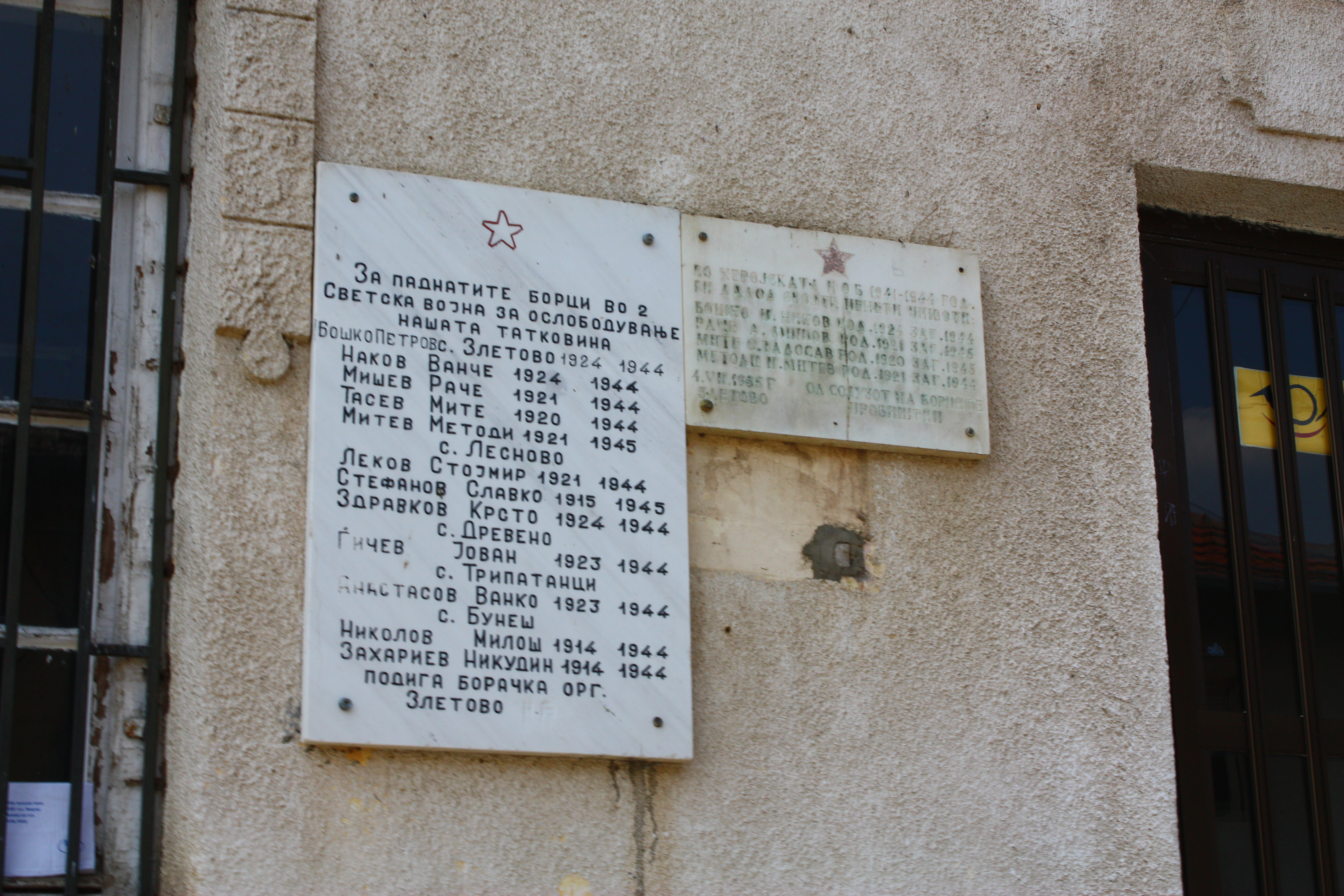 Zletovo, Macedonia